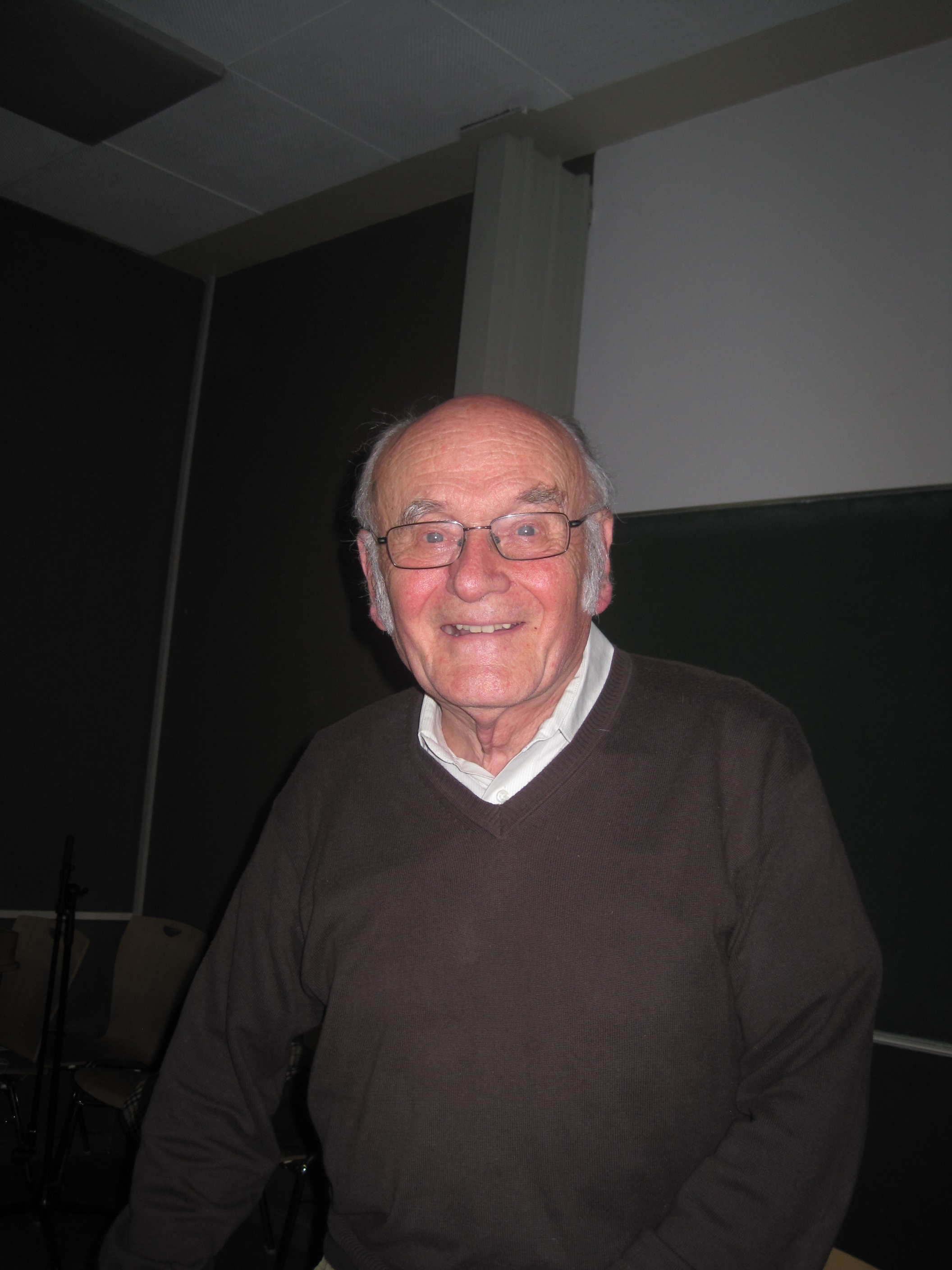 Protestant theologian Erhard Gerstenberger